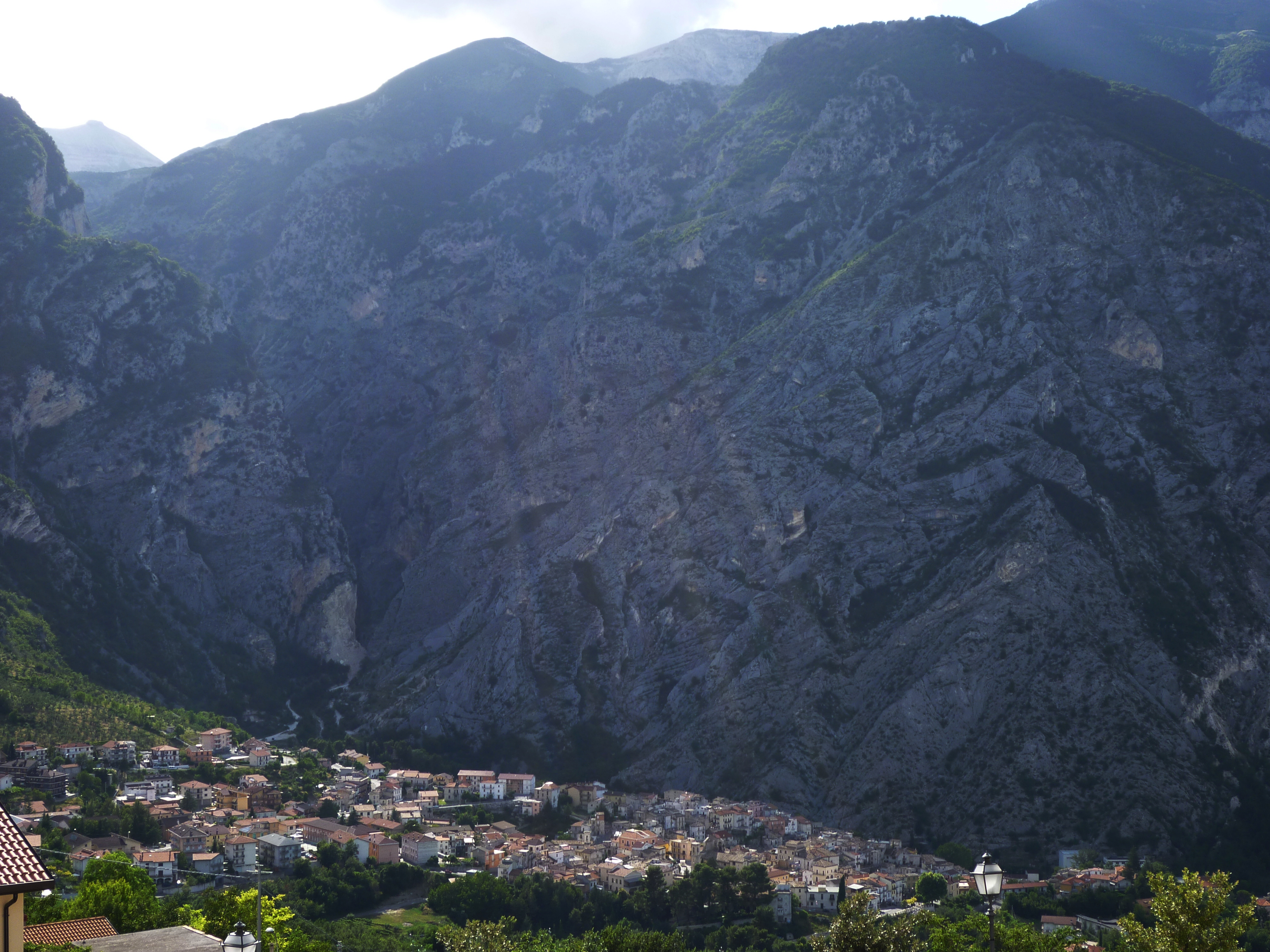 Fara San Martino, province of Chieti, Abruzzo, Italy